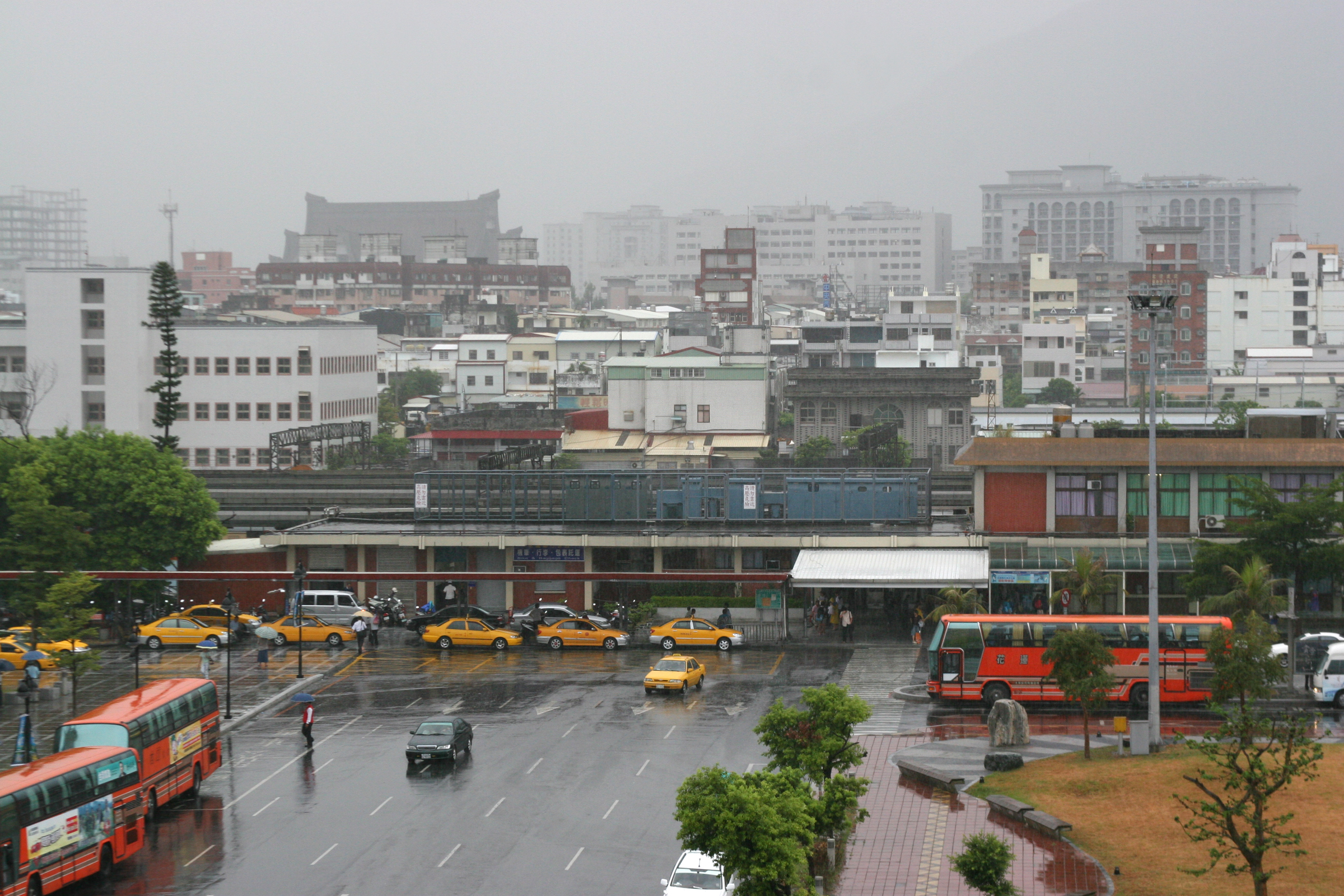 Rain in TRA Hualien Station.